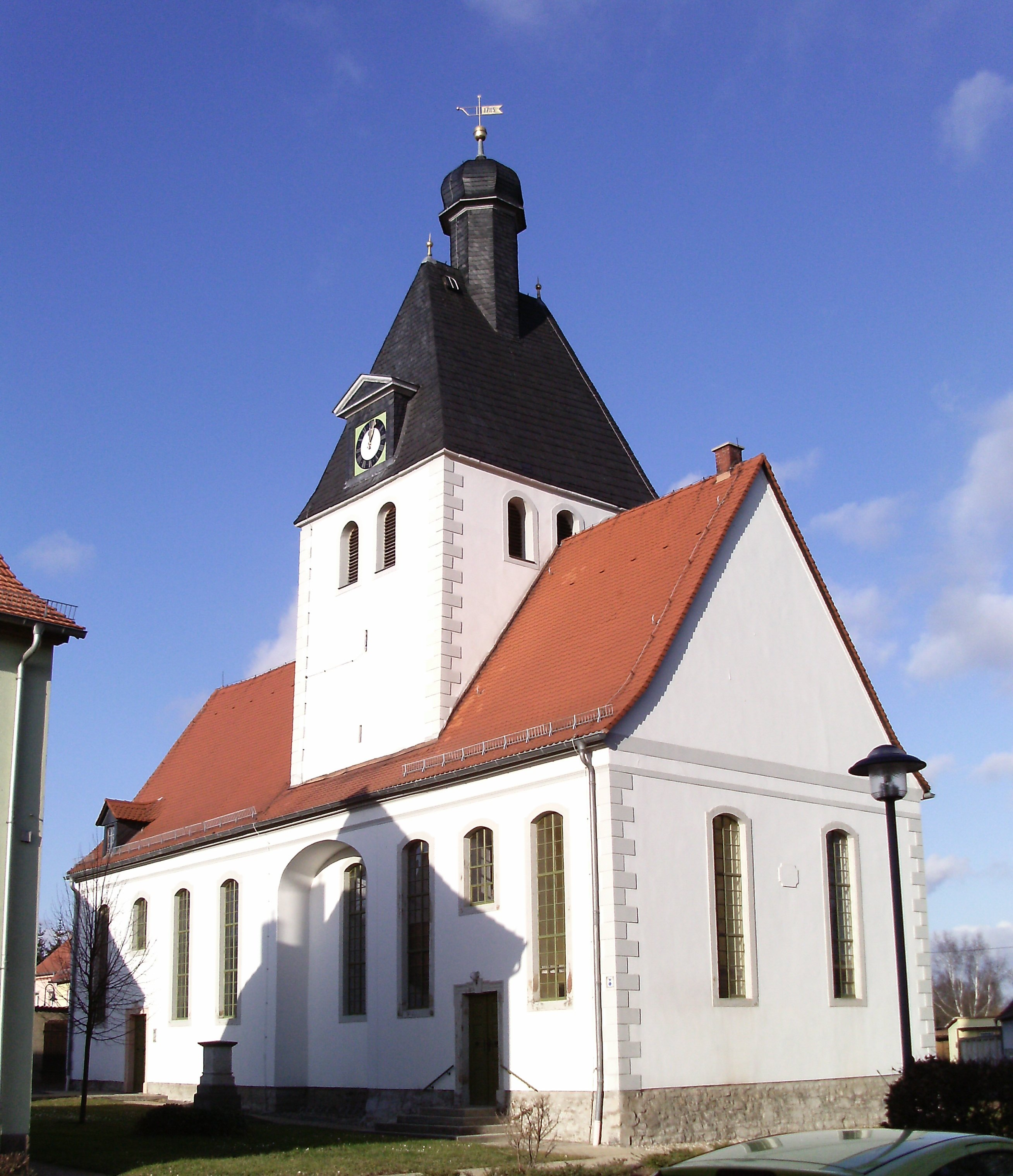 St. Wenceslaus Church in Zöschen (Leuna, district of Saalekreis, Saxony-Anhalt)